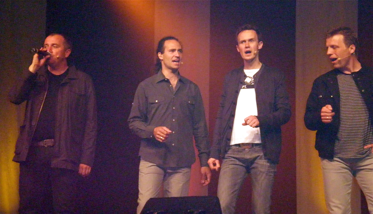 The Wise Guys at a concert in Luxembourg